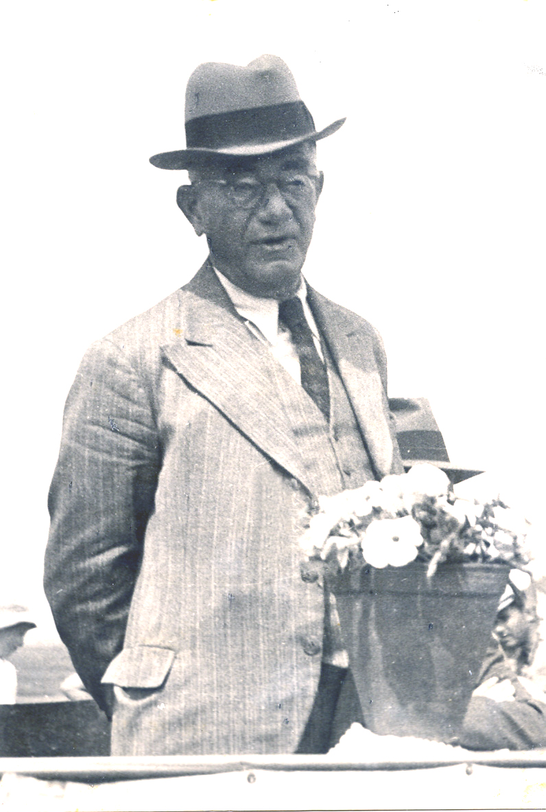 Artur Ruppin visits Beit-itzhak